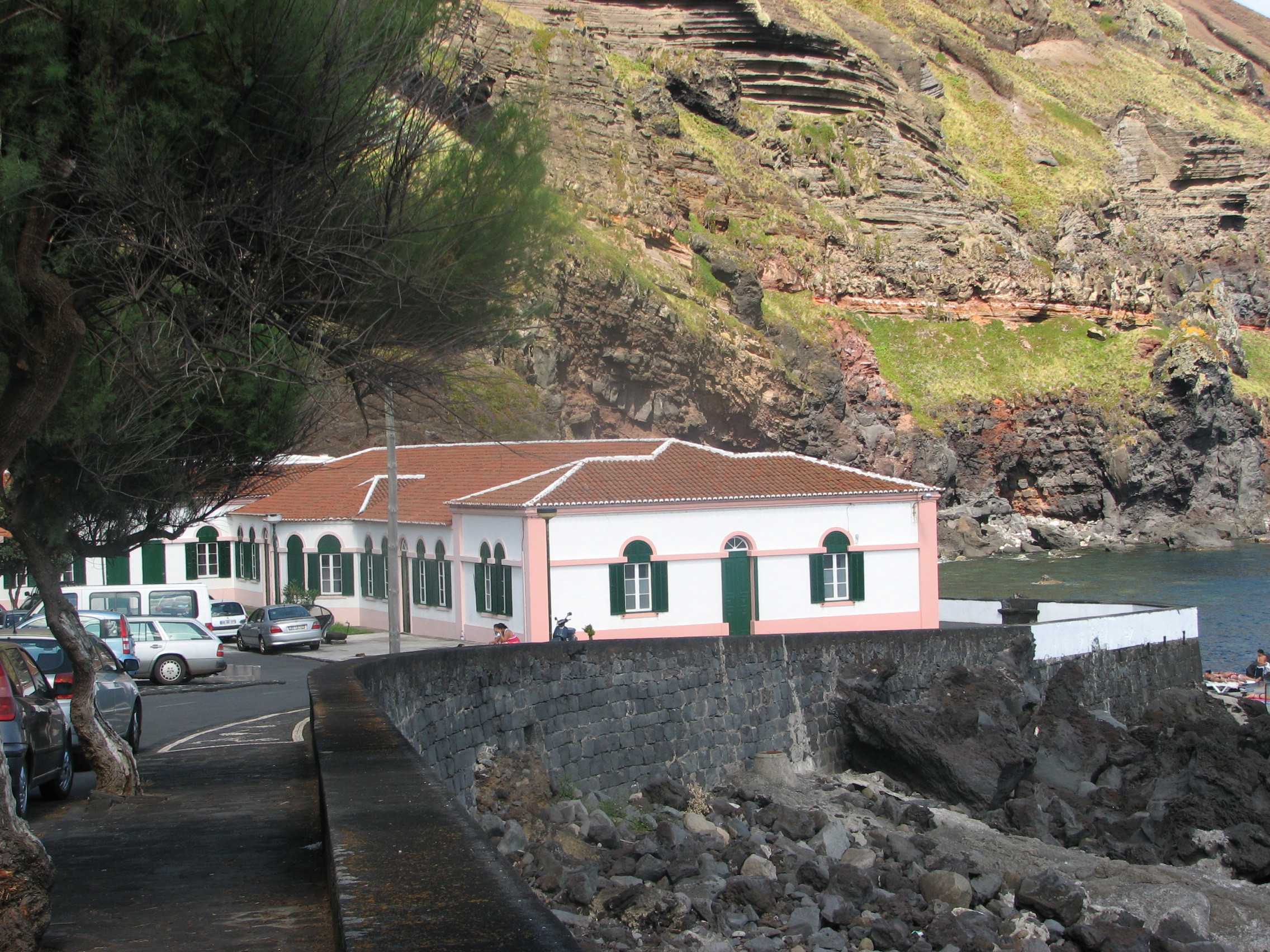 The building housing the thermal baths of Carapacho, Graciosa, Azores.